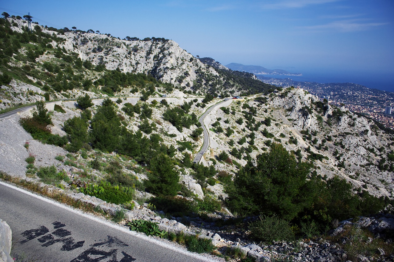 Mont Faron is a mountain overlooking the city and roadstead of Toulon, France. It is 584m high. At its peak is a memorial dedicated to the 1944 Allied landings in Provence (Operation Dragoon) , and to the liberation of Toulon.